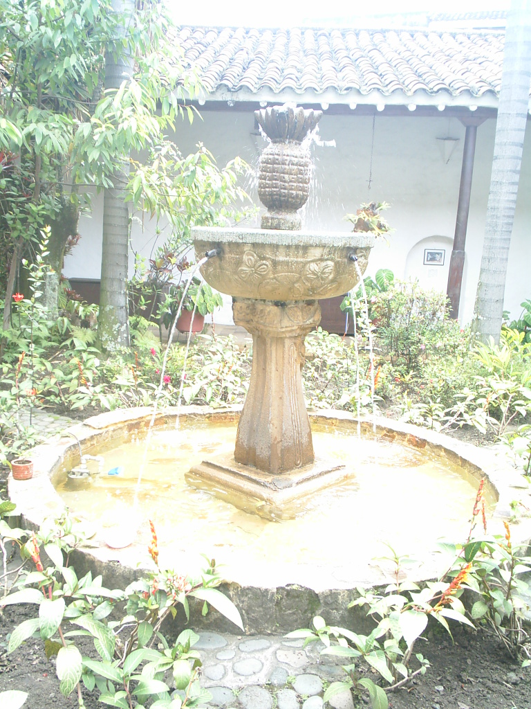 Fountain of Crespo